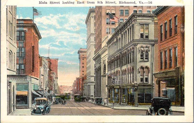 Main Street, looking east at 8th Street, Richmond, Virginia; postmarked 1929